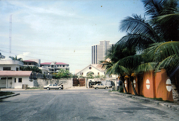 A neighborhood in Victoria Island, Nigeria